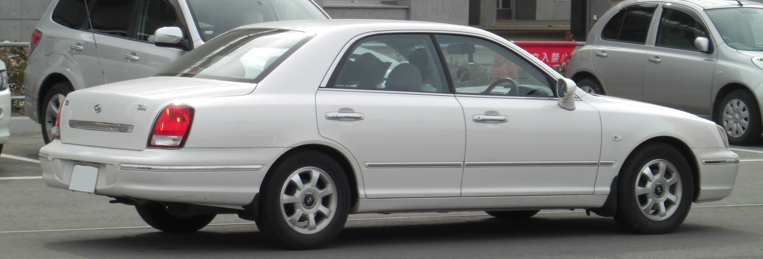 Hyundai XG